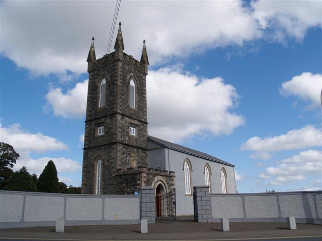 Maghera Church of Ireland A neatly constructed building